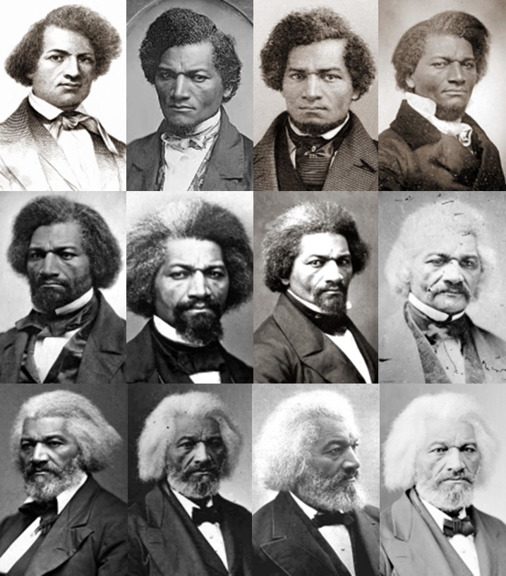 Composite of several images of Frederick Douglass